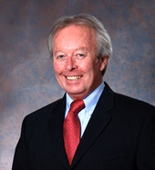 Edward J Kennedy MA government photo